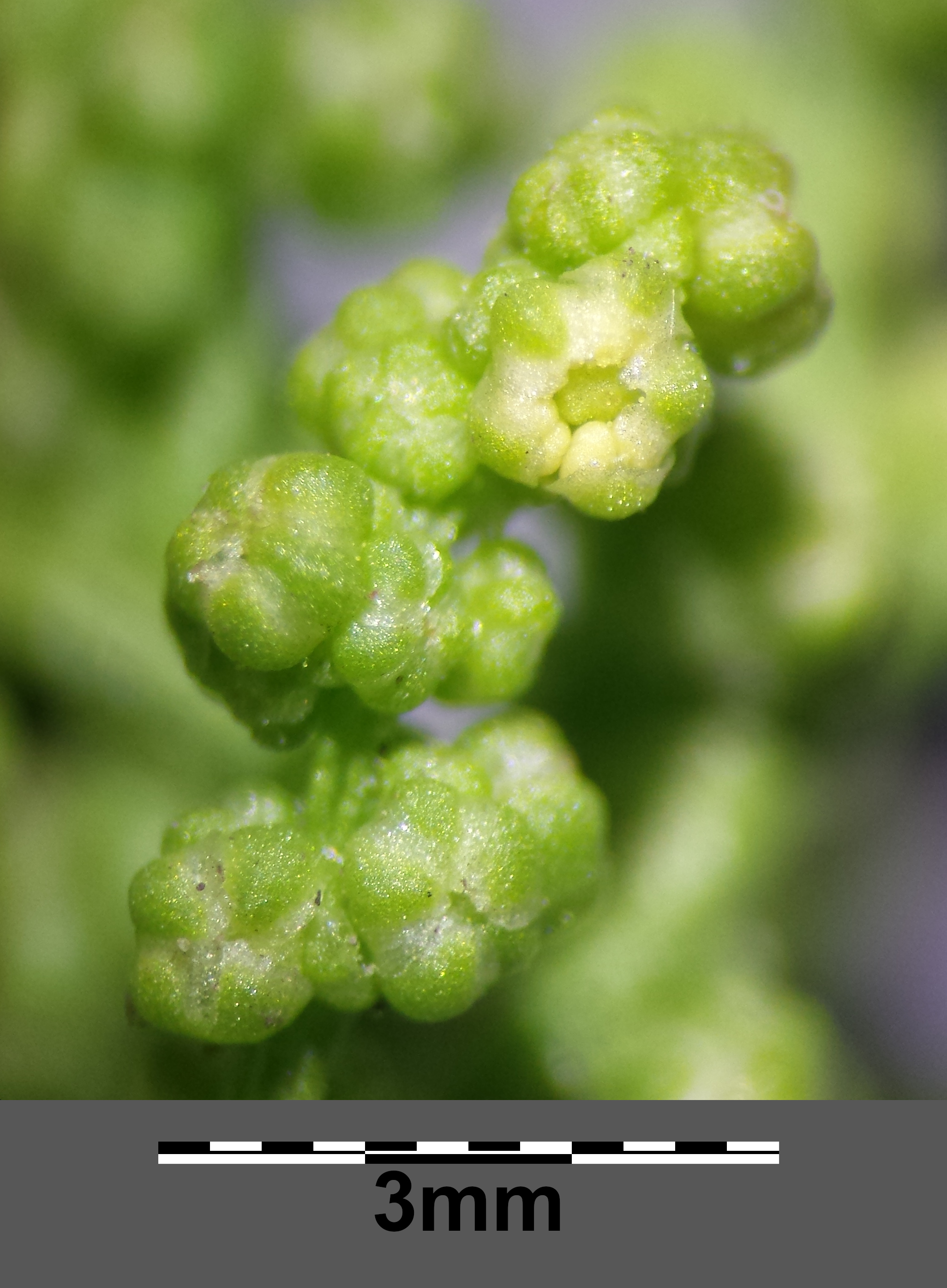 Inflorescence Taxonym: Chenopodium urbicum ss Fischer et al. EfÖLS 2008 ISBN 978-3-85474-187-9 Location: next to Wörtenlacke near Apetlon, district Neusiedl am See, Burgenland, Austria - ca. 120 m a.s.l. Habitat: field